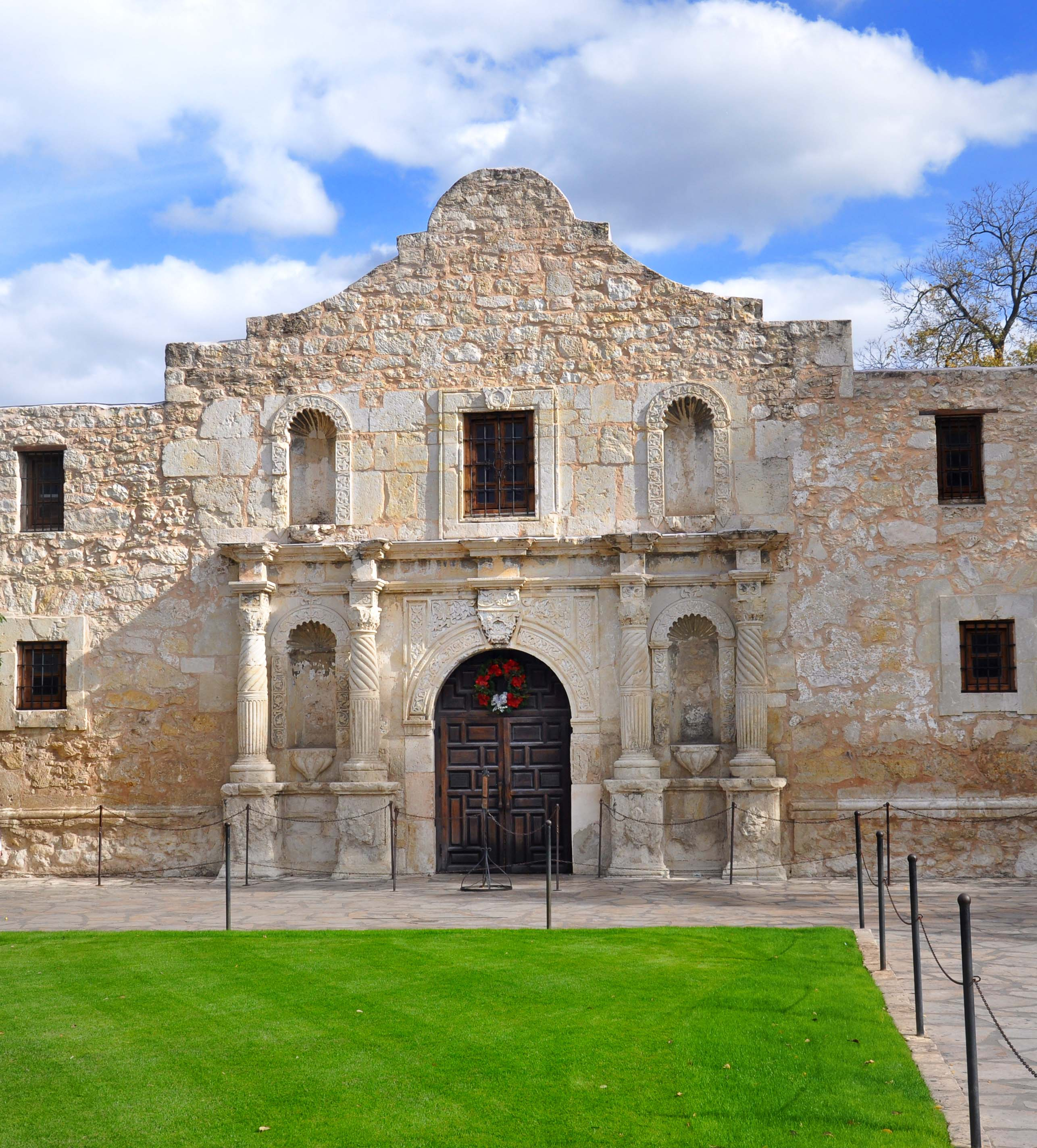 The Alamo, Alamo Plaza San Antonio